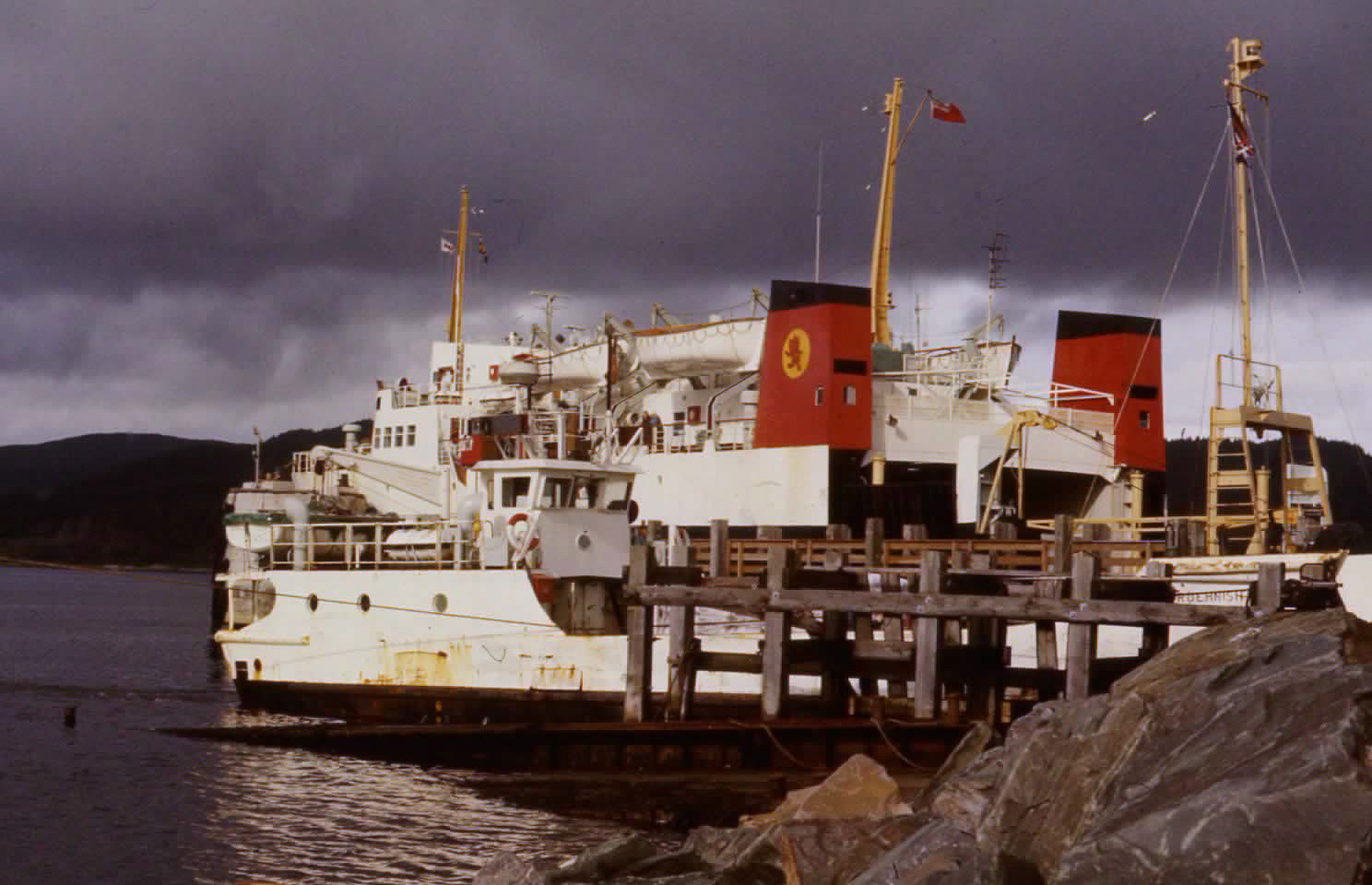 MV Iona and MV Bruernish, the Gigha ferry at Kennacraig.